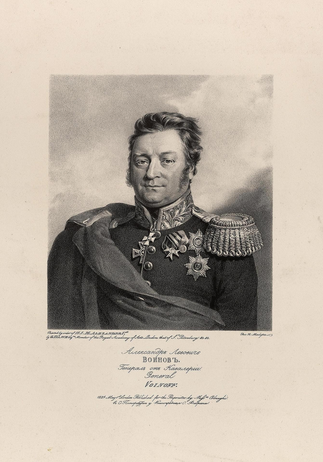 Portrait of General A. L. Voinov